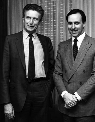 Jean-Claude Paye (left), Secretary-General of the OECD, meeting Paul Keating, Treasurer of Australia